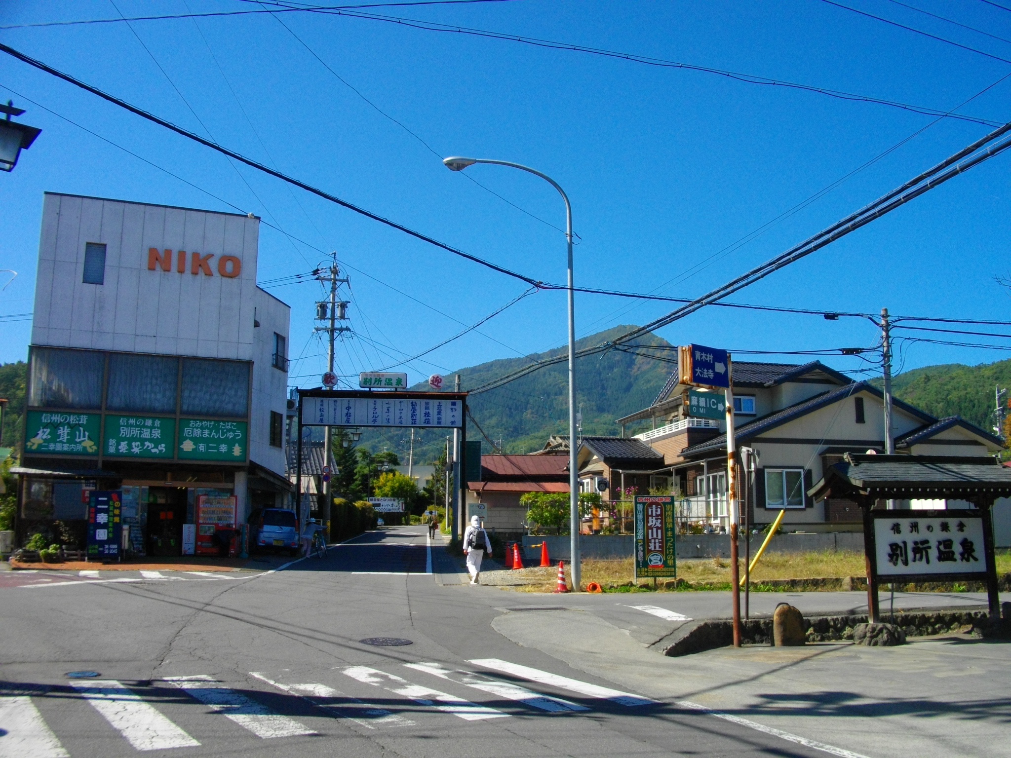 Entrance to Bessho Onsen